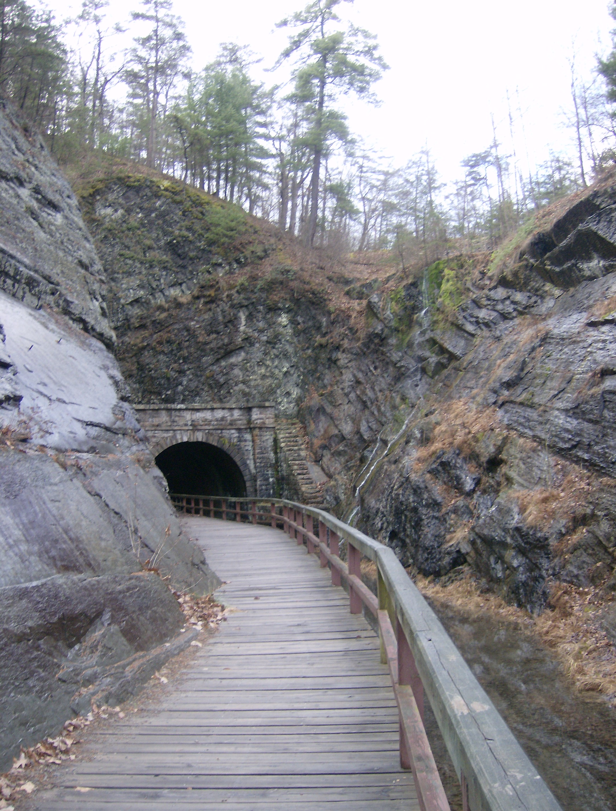 The view of the east side entrance to the Paw Paw Tunnel on the C & O Canal Towpath